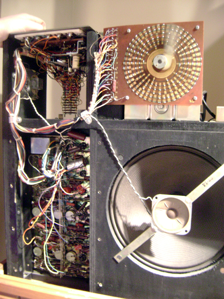 Wurlitzer Sideman drum machine 1957, at the Cantos Foundation museum. One of the first drum machines ever built, it used solder connections to register a beat. This one has been fixed up heavily over the years in order to remain functional. It plays a sweet bassonova beat. Visited Cantos Foundation in February 2009 and took a lot of pictures and video. S l o w l y uploading photos & videos.